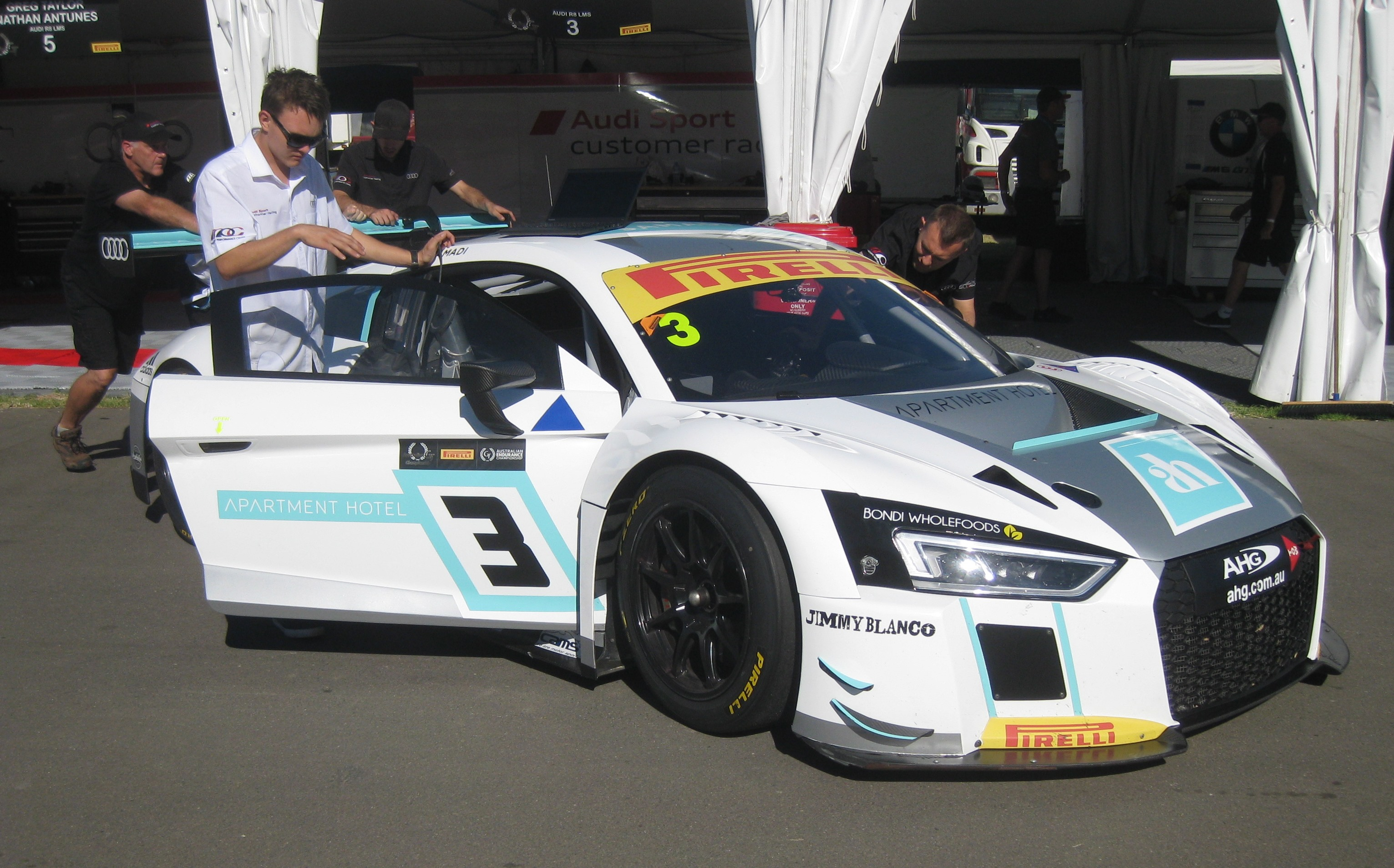 The Audi R8 LMS of Ash Samadi at the Adelaide Parklands Circuit for Round 1 of the 2017 Australian GT Championship.